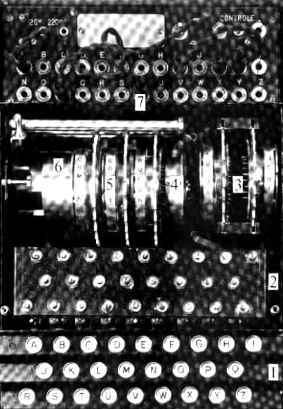 Polish copy of Enigma made by Biuro Szyfrow